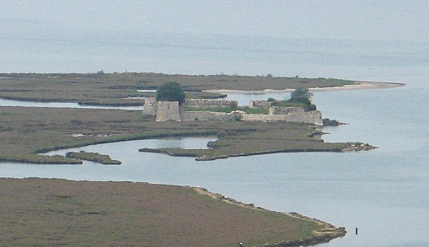 Ali Pasha's Fortress at the mouth of Vivari Channel, Butrint, Albania